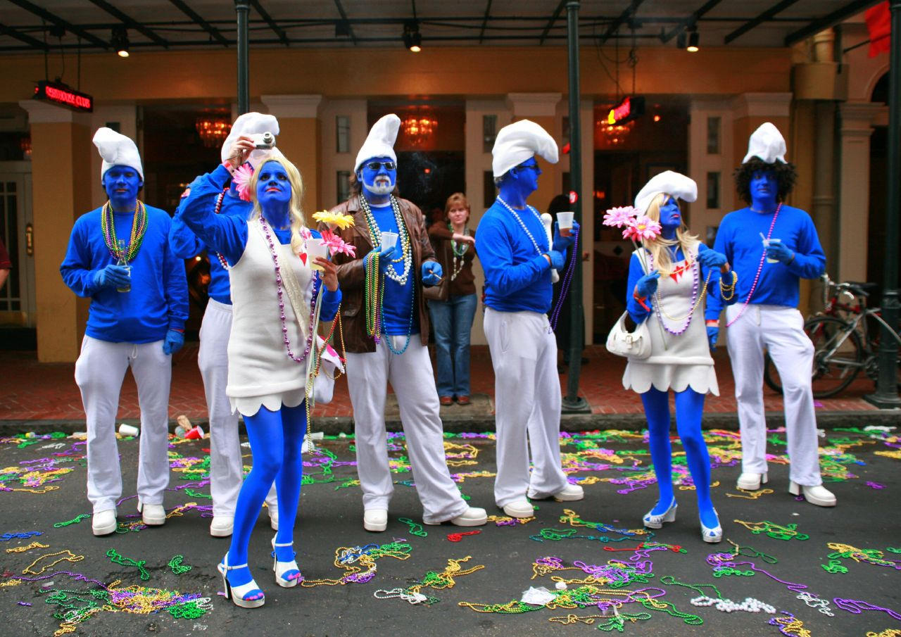 New Orleans Mardi Gras. The blue men & women group.